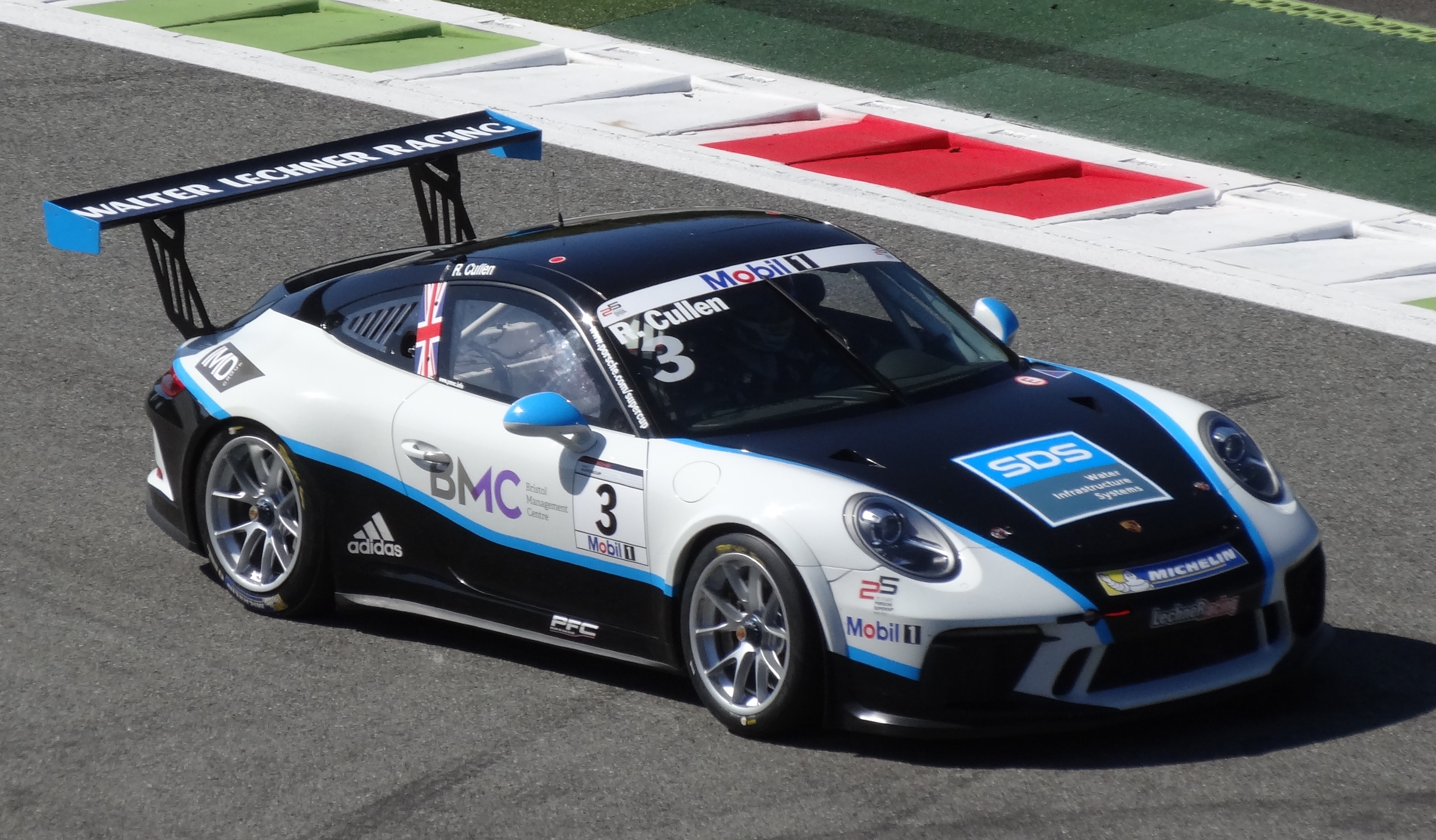 Ryan Cullen, Porsche Supercup, Monza 2017